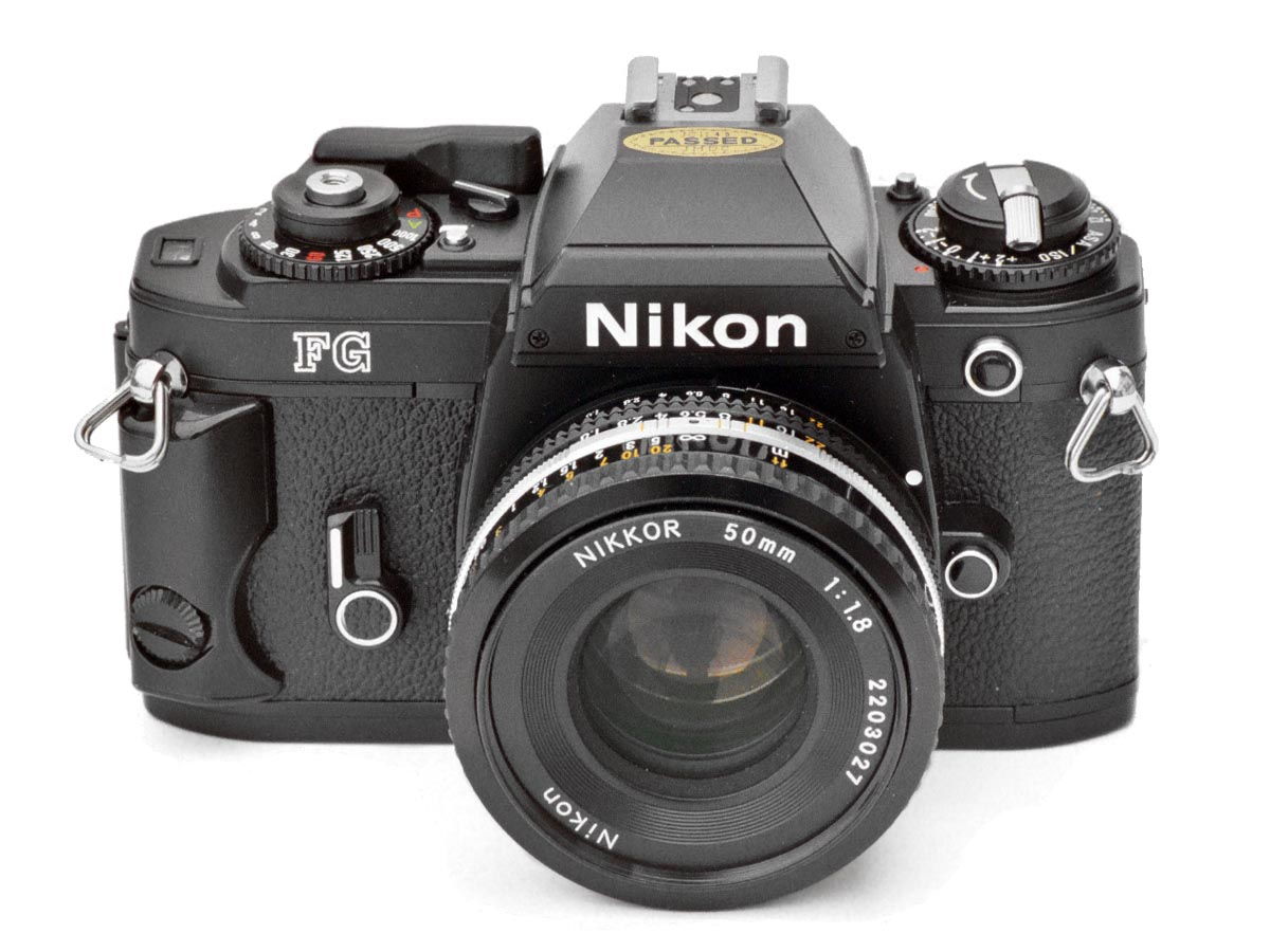 Nikon FG (black) from front with Nikkor AI-S 50 mm f/1.8 (late) lens